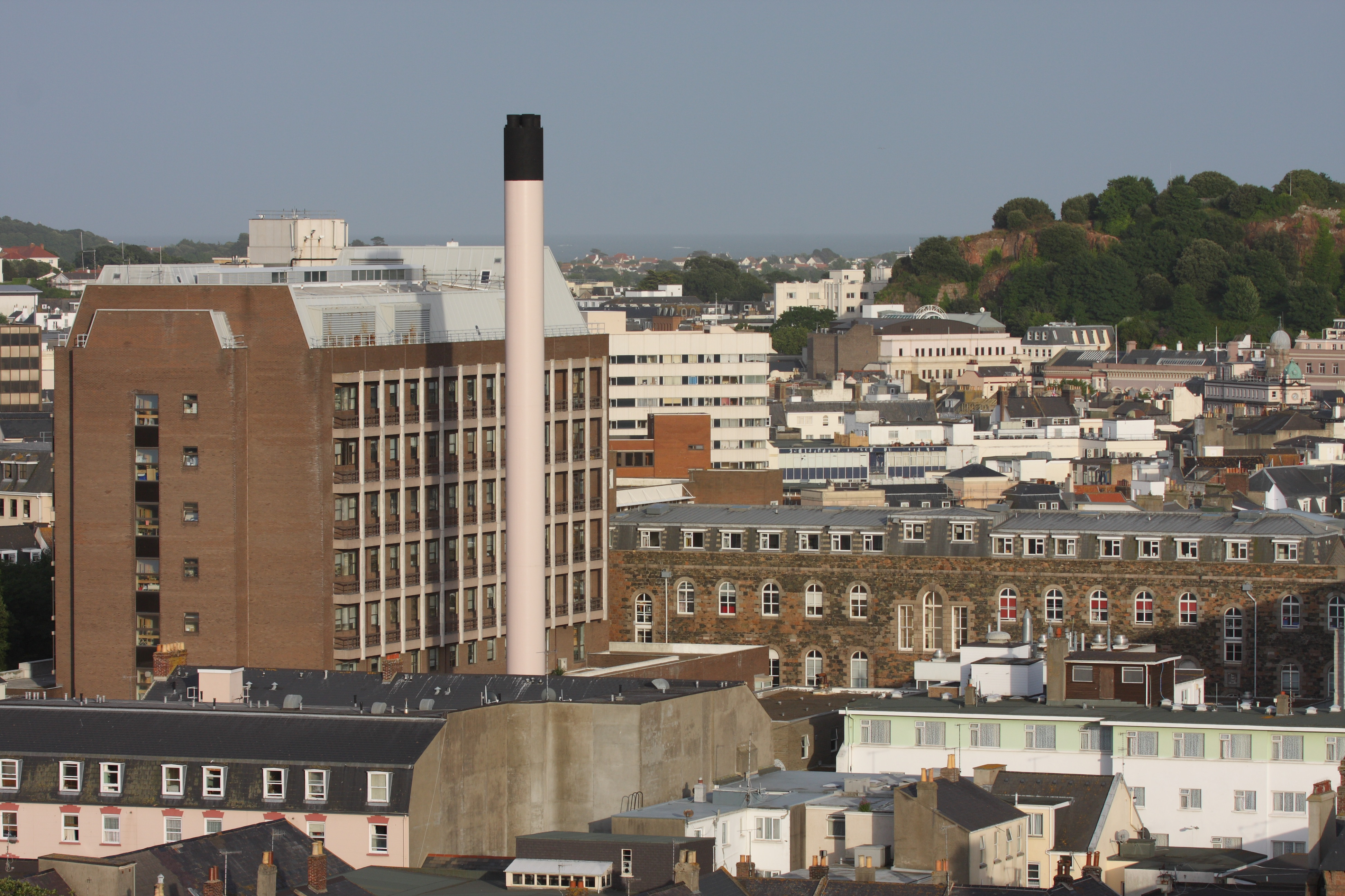 General Hospital in St. Helier, Jersey, viewed from West Mount.